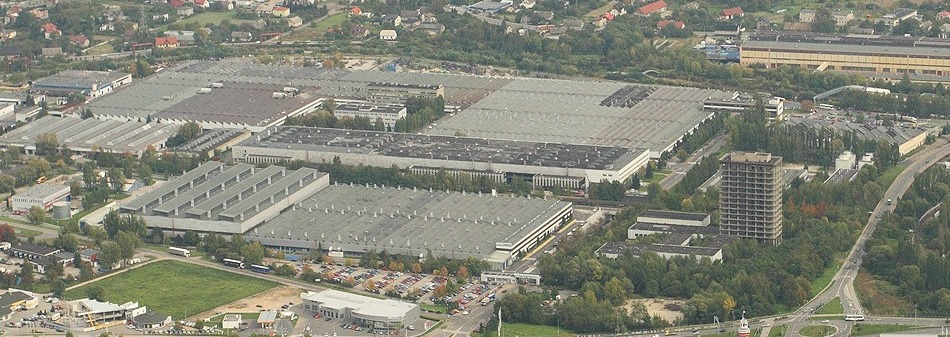 Aerial photography of Fiat Auto Poland (special economic zone) in Bielsko-Biała, Poland. Picture of year 2007.